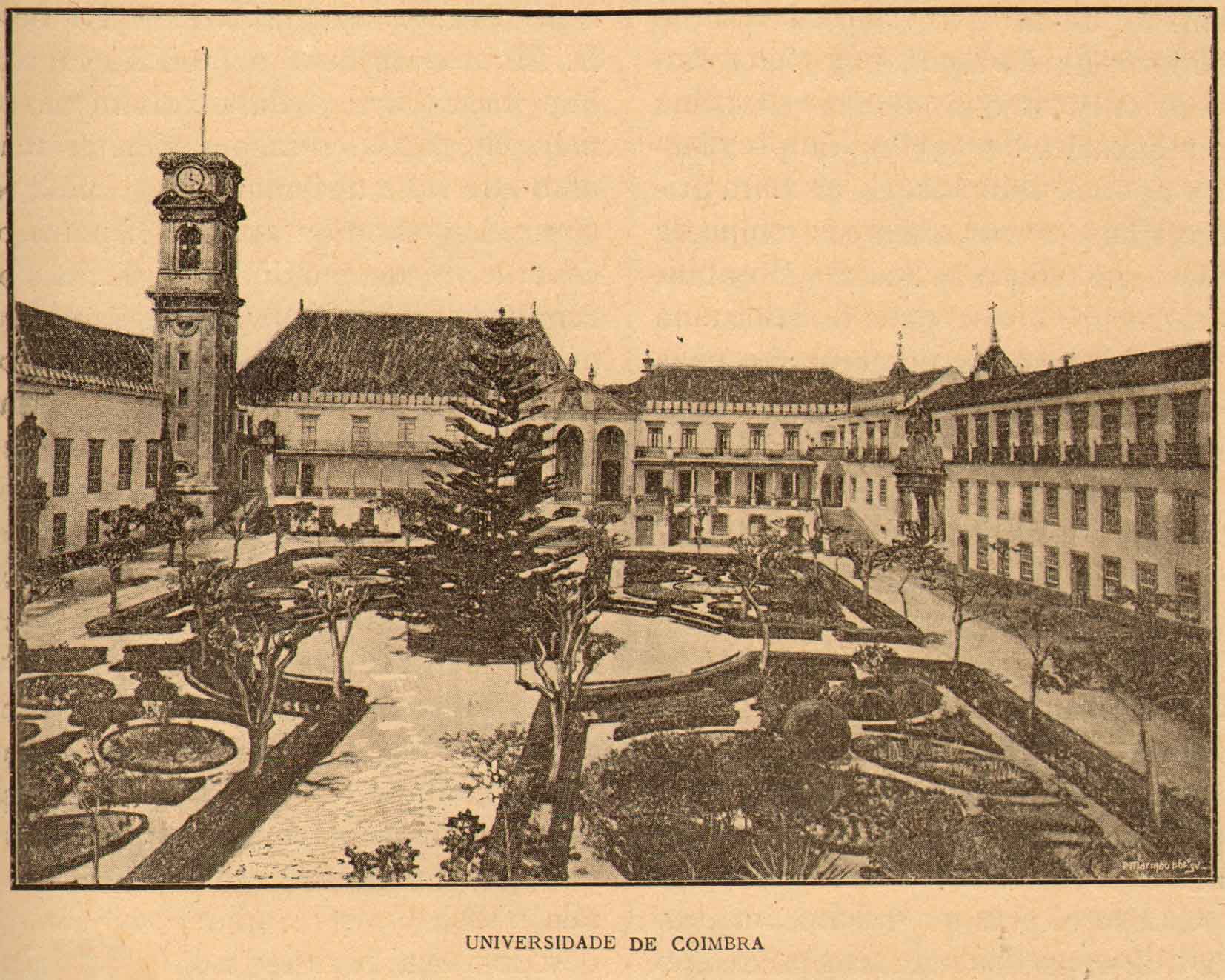 Illustration by Alfredo Roque Gameiro in the book História de Portugal, popular e ilustrada, by Manuel Pinheiro Chagas